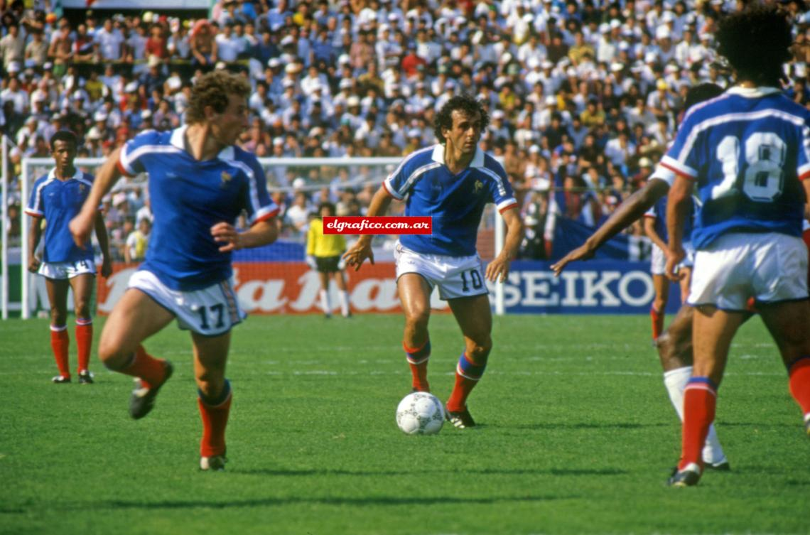 Jean P. Papin (left) and Michel Platini (middle) during the World Cup at Mexico.